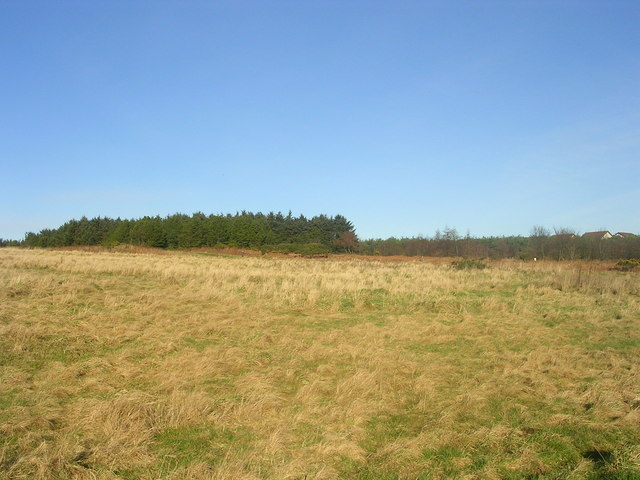 Scotstown Moor This area of moorland used to lie several miles from the city of Aberdeen but now suburban housing surrounds it in all directions but north. Housing at Denmore can be seen on the far right of the picture.